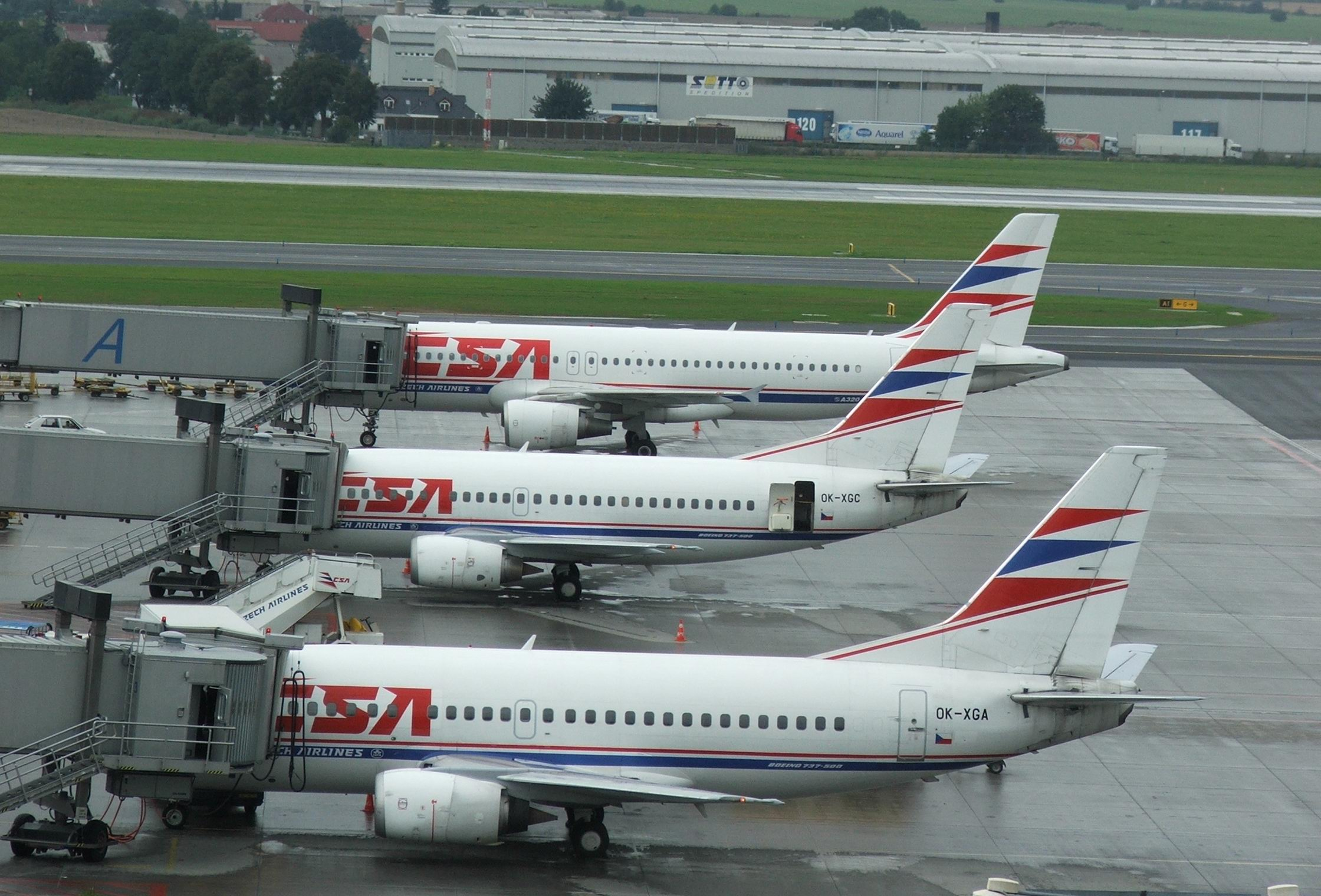 Terminal North 1, Departure Hall, Pier A - Airbus A320 an Boeing B737 of CSA Czech Airlines in Prague Intl. Airport Ruzyně, Czechia.